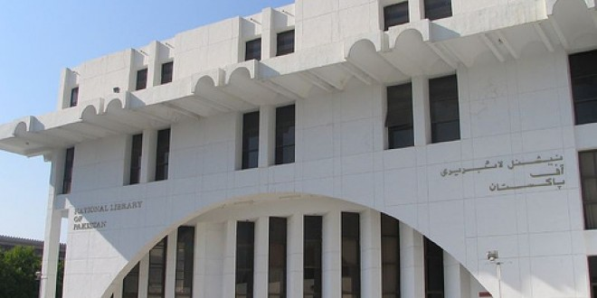 National Library of Pakistan This is a photo of a monument in Pakistan identified as the ICT-14